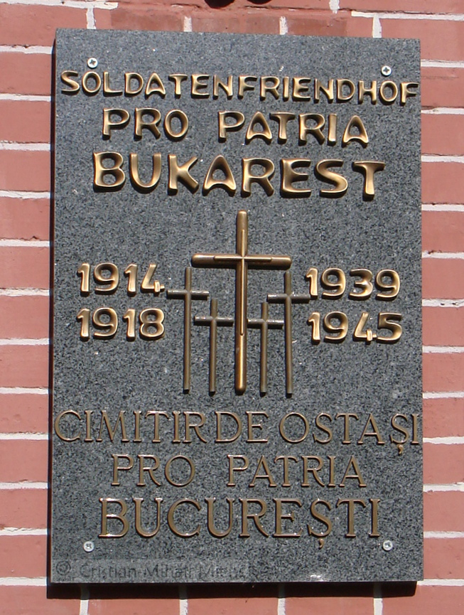 Bilingual notice on the access door to the military cemetery "Pro Patria" in Bucharest, Romania